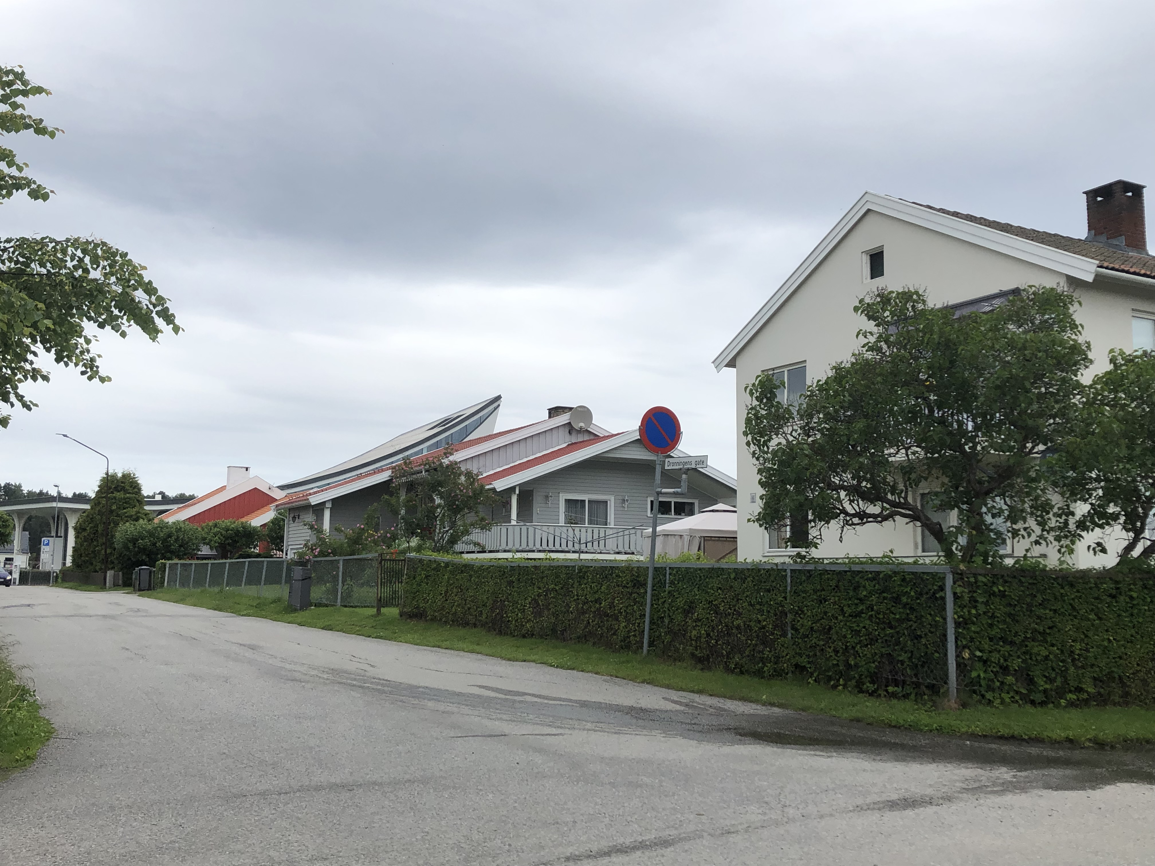 Dronningens gate, Hønefoss, Norway.